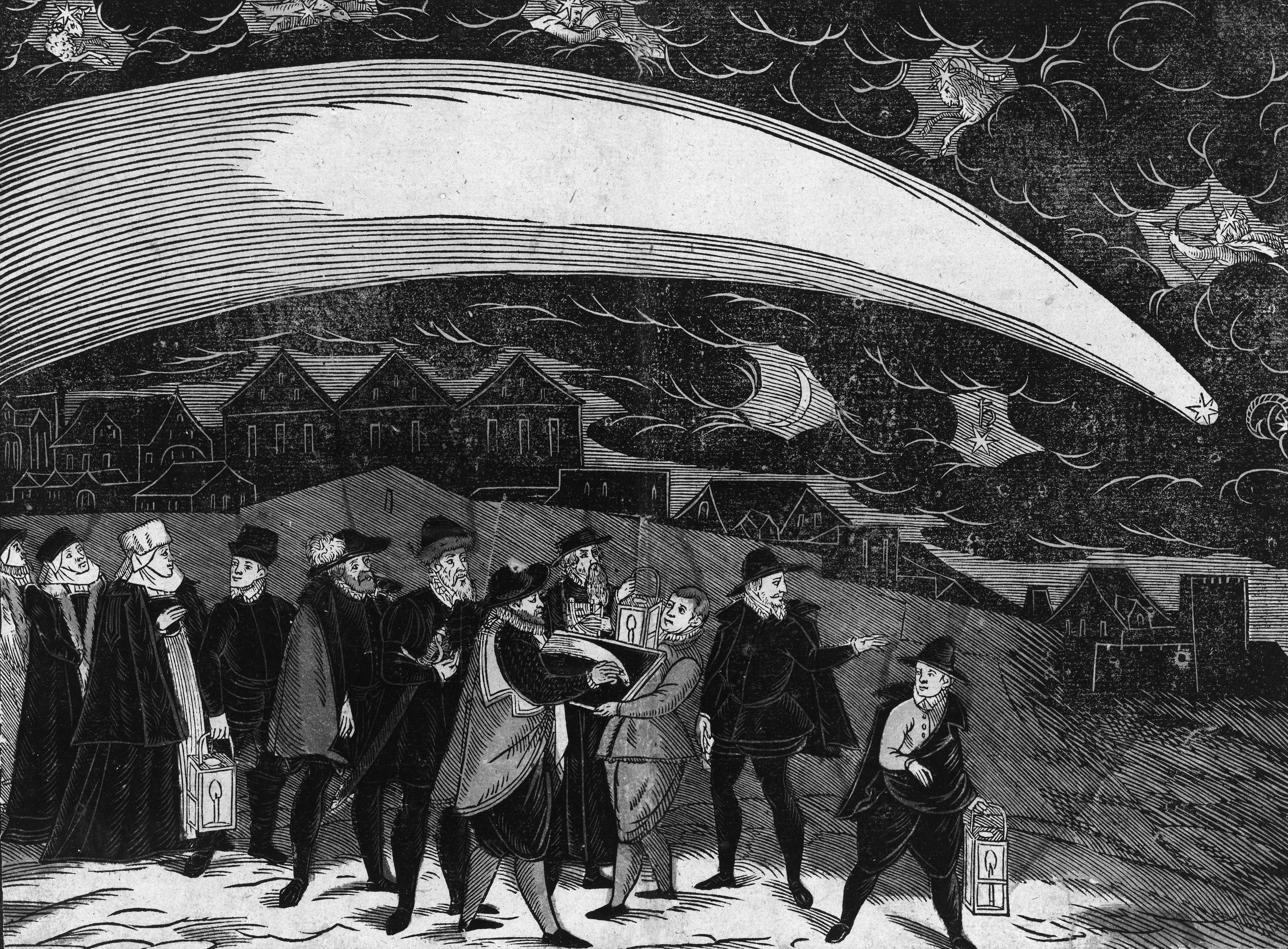 About a terrible and marvelous comet as appeared the Tuesday after St. Martin's Day (1577-11-12) on heaven. (Written by Peter Codicillus of Tulechova) A depiction of the Great Comet of 1577 over Prague. In addition to the comet, five zodiac symbols appear in the sky: (L-R) Aries, Pisces, Aquarius, Capricorn, and Sagittarius. Below the comet's tail are the crescent moon and Saturn, depicted as a star with the astronomical symbol ♄. At the bottom center, a man draws the comet by the light of a lantern.